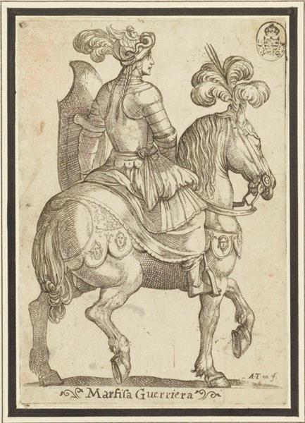 Marfisa, one of the main characters in Ludovico Ariosto's Orlando Furioso.